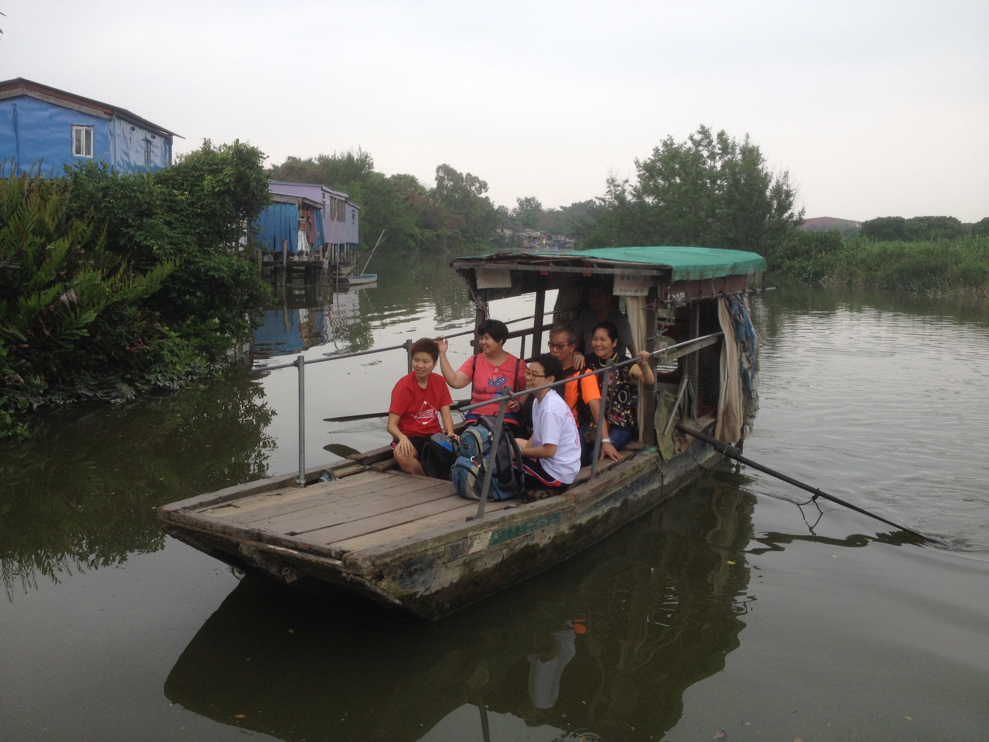 This photo is taken in Shan Pui Tsuen.